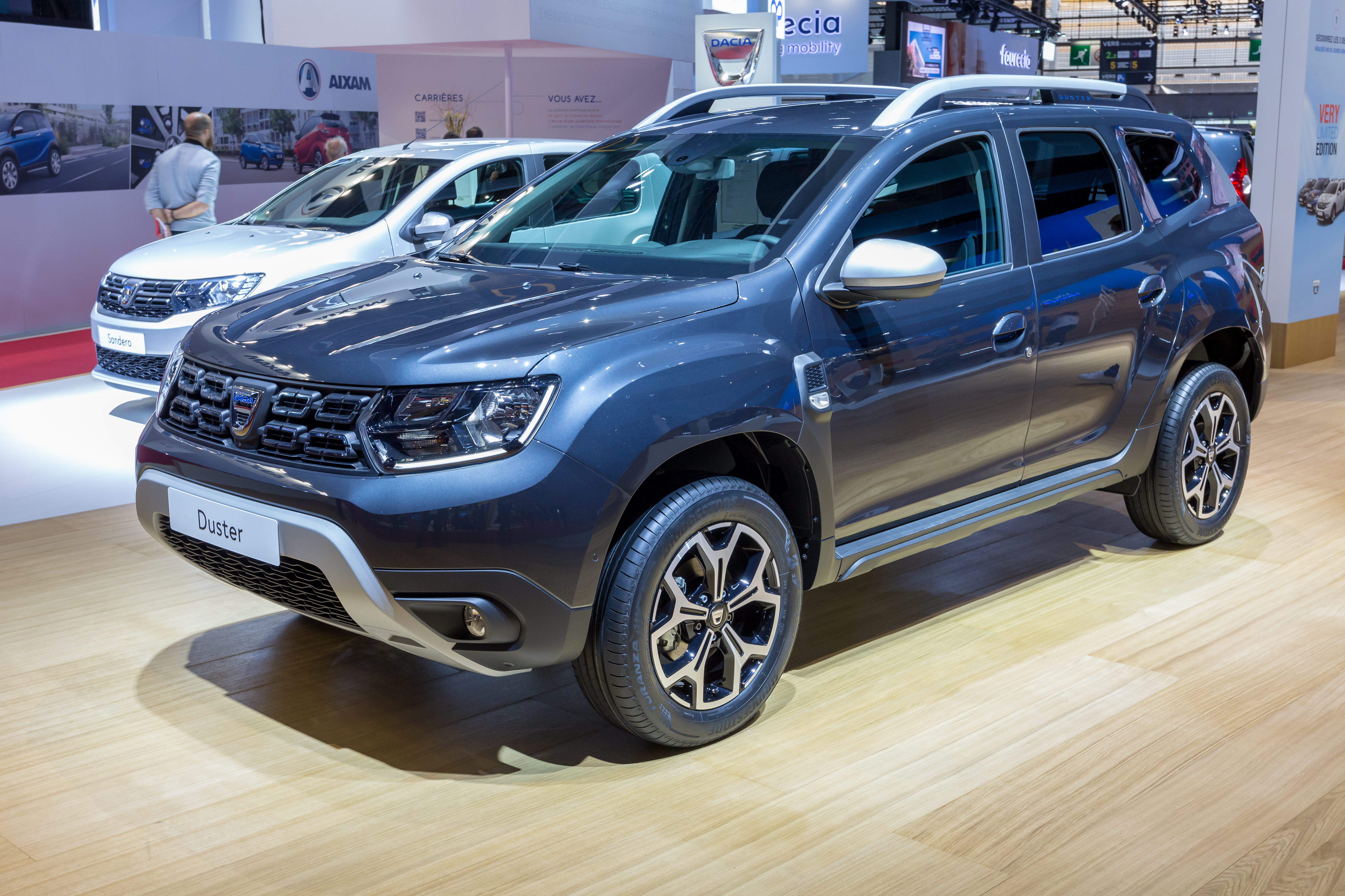 Dacia Duster, press days at Mondial Paris Motor Show 2018